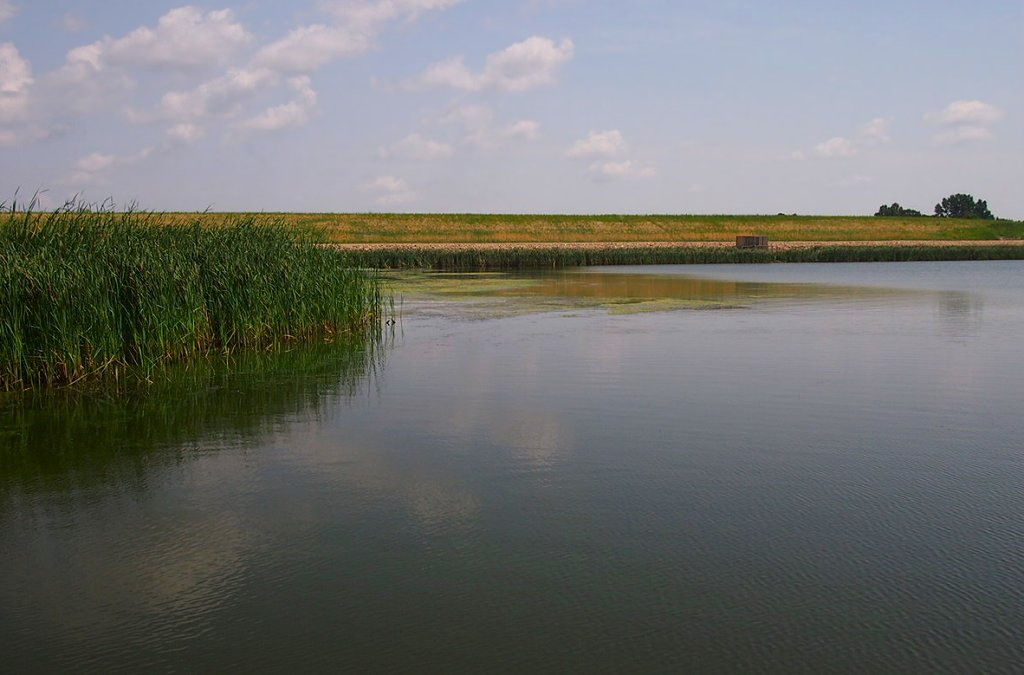 Renwick Dam creating Lake Renwick, Icelandic State Park, North Dakota, USA